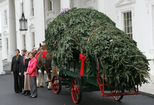 Laura Bush welcomes the arrival of the official White House Christmas tree to the North Portico of the White House on Monday November 26, 2007. The 18-foot Fraser Fir tree, from the Mistletoe Meadows tree farm in Laurel Springs, N.C., will be on display in the Blue Room of the White House for the 2007 Christmas season. Joining Mrs. Bush, from left are, Beth Walterscheidt, president of the National Christmas Tree Association, and Joe Freeman and his wife Linda Jones of Mistletoe Meadow tree farm in Laurel Springs, N.C.